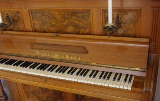 j.Mayer piano approx 1890